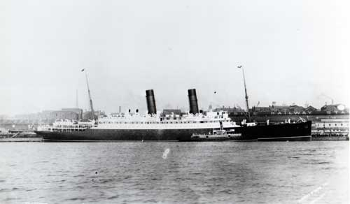 RMS Laconia at New York.